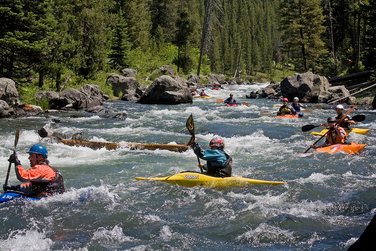 Kayaking on the Coffee Pot Rapids of the Henry's Fork of the Snake River